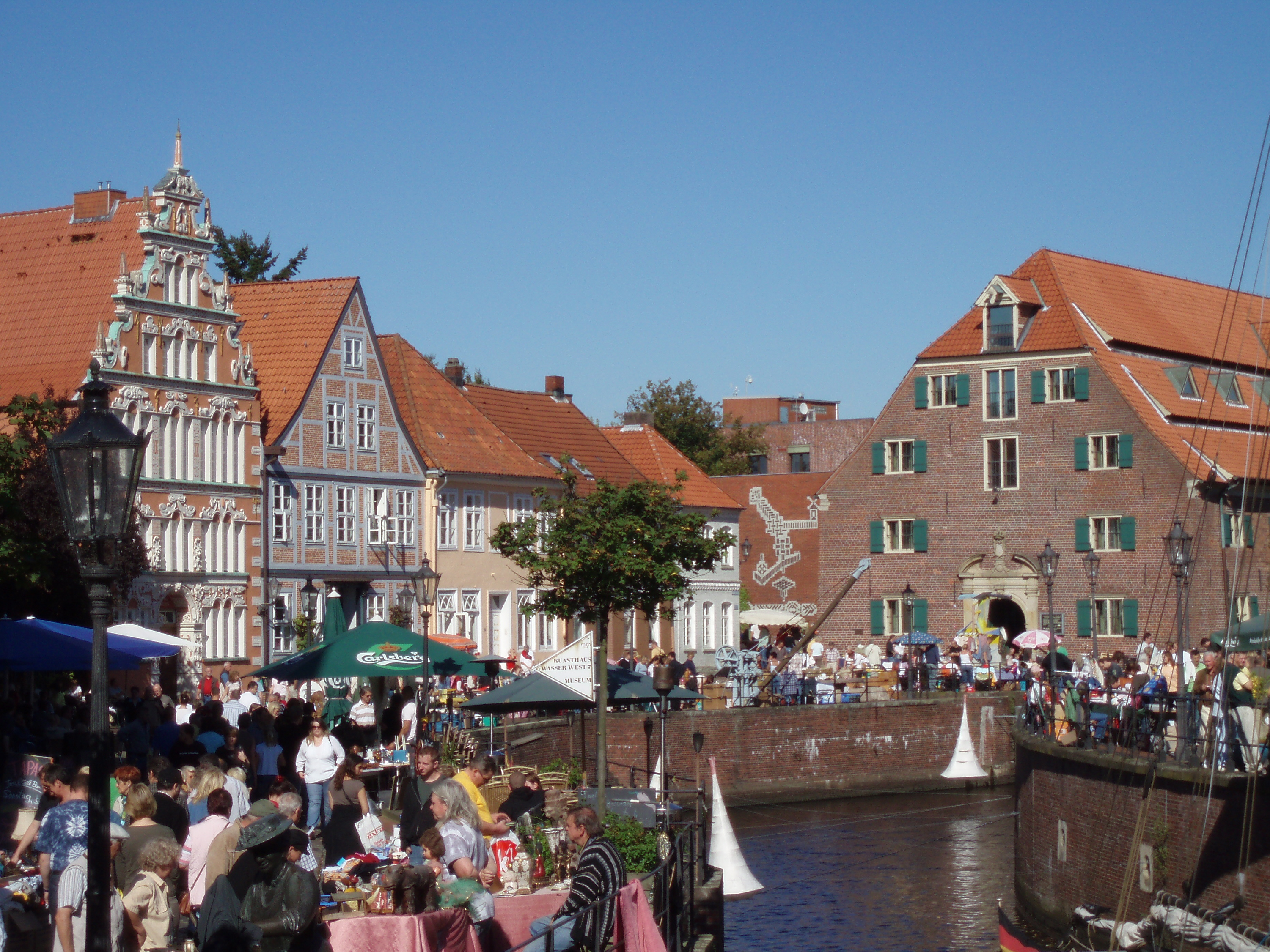 Buildings at the old Hansehafen, Stade.